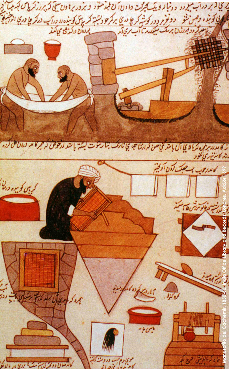 This painting demonstrates different stages of manufacturing the Oriental Paper